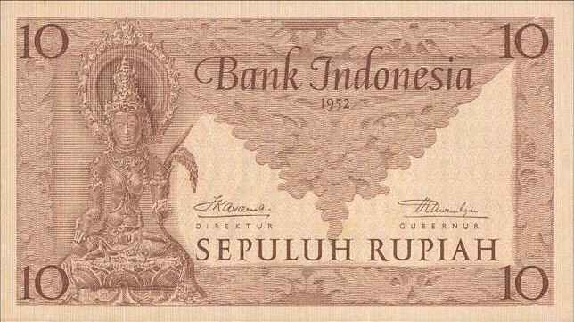 Indonesian currency IDR 10 issued in 1952 with picture of Dewi Sri statue, issued after Independence, printed by Pertjetakan kebajoran N.V.